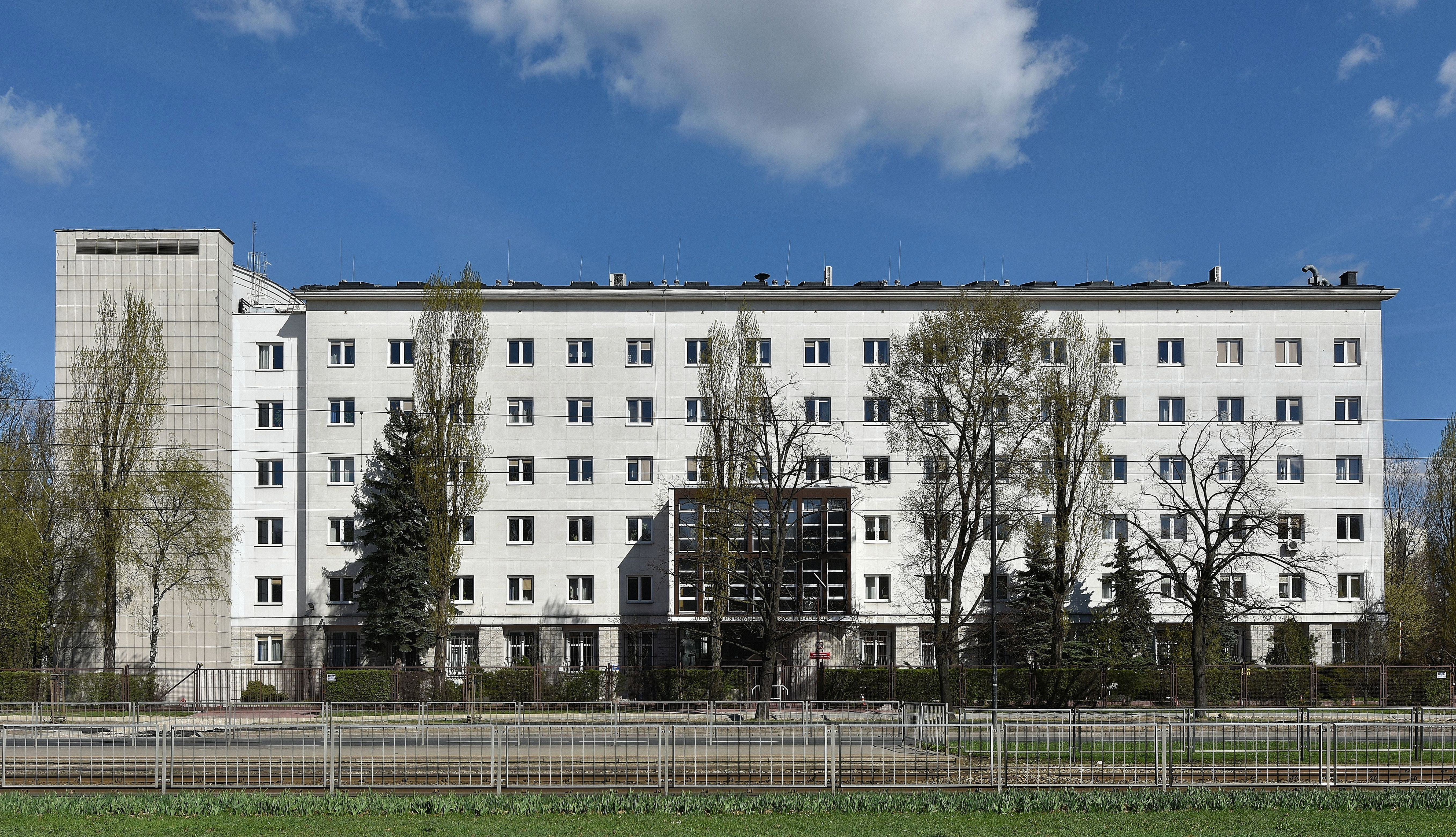 Polish Patent Office at 188/192 Niepodległości Avenue in warsaw